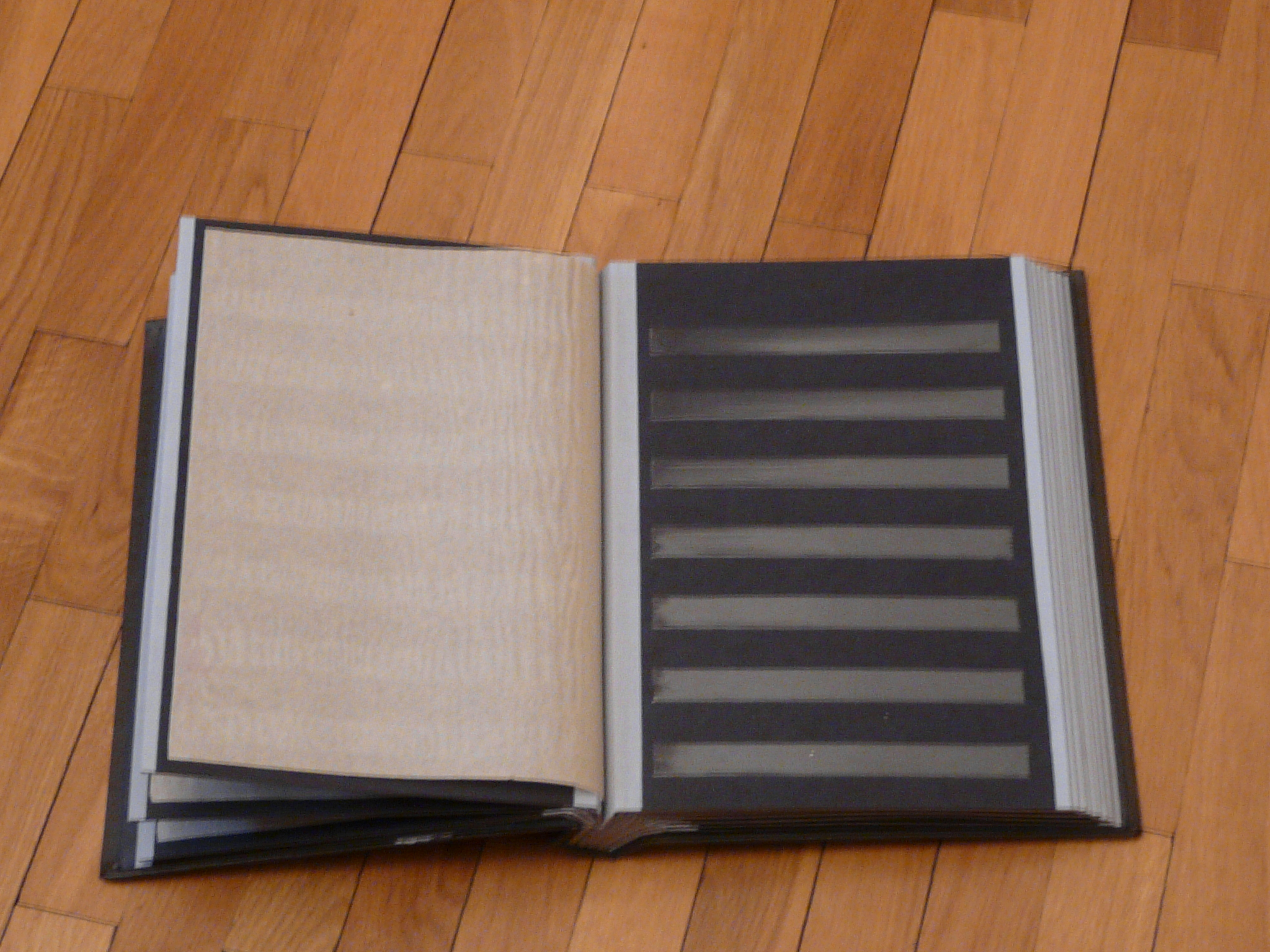 Polish stockbook, open.